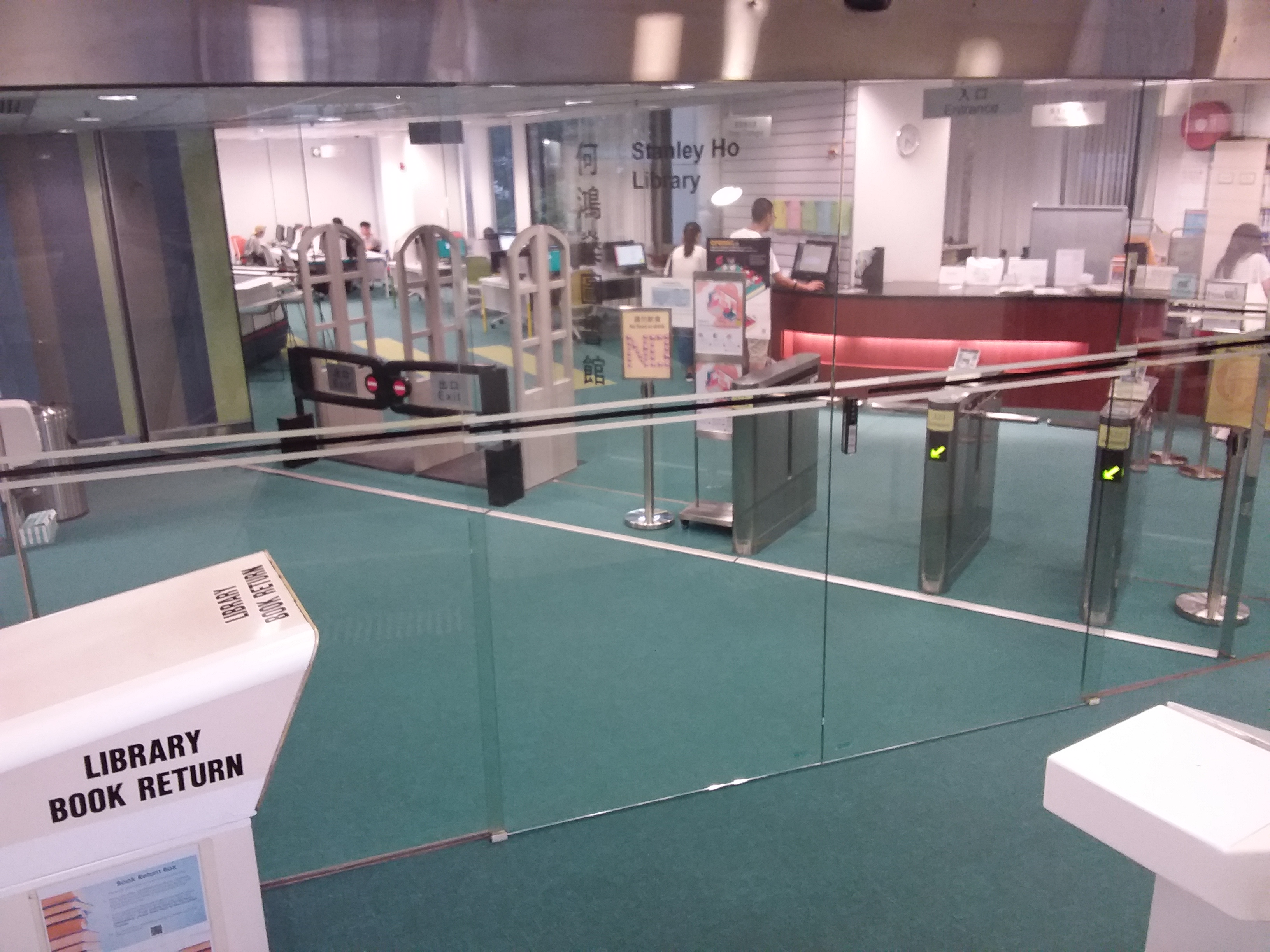 HK 何文田 Ho Man Tin main campus OUHK 香港公開大學 Open University of Hong Kong 牧愛街 Good Shepherd Street OUHK Sept 2019